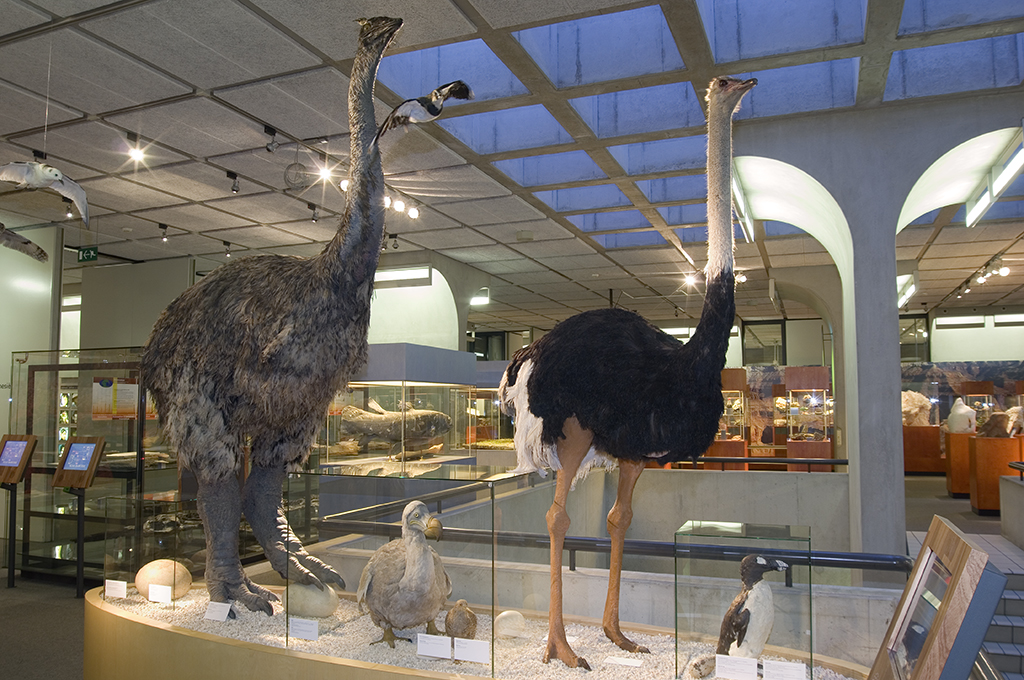 Aepyornis, dodo and ostrich in the Museon exhibition.